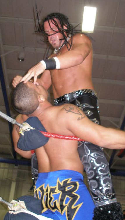 Professional wrestlers Joey Matthews and Xavier.